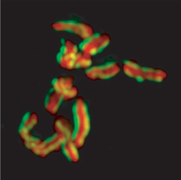 Mitotic chromosomes of Caenorhabditis elegans. DNA (red)/ Kinetochores (green). Holocentric organisms, including C. elegans, assemble diffuse kinetochores along the entire poleward face of each sister chromatid.